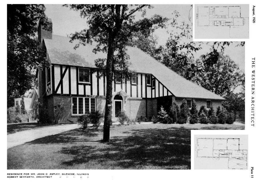 Image of John C. Aspley house, 230 Fairview, Glencoe, IL, Robert Seyfarth, architect, c. 1920